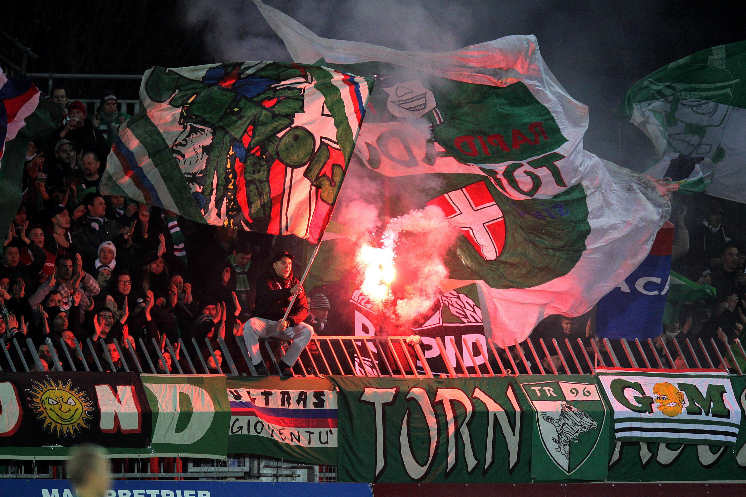 Match of the Austrian Football Bundesliga – SV Mattersburg (green shirts) vs. SK Rapid Wien (white shirts) 1-6 (0-5) at 2015-11-21 in Pappelstadion, Mattersburg – The photo shows supporters of SK Rapid Wien.